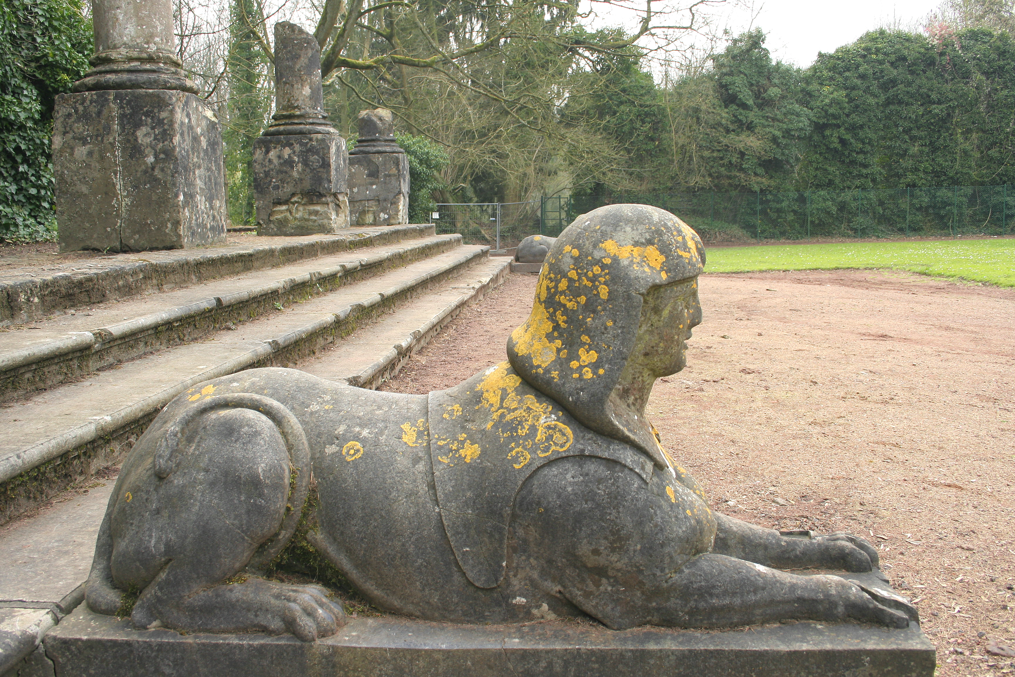 Morlanwelz-Mariemont (Belgium), sphinx located at the left side of the northern perron of the Marie de Hongrie castle ruines.